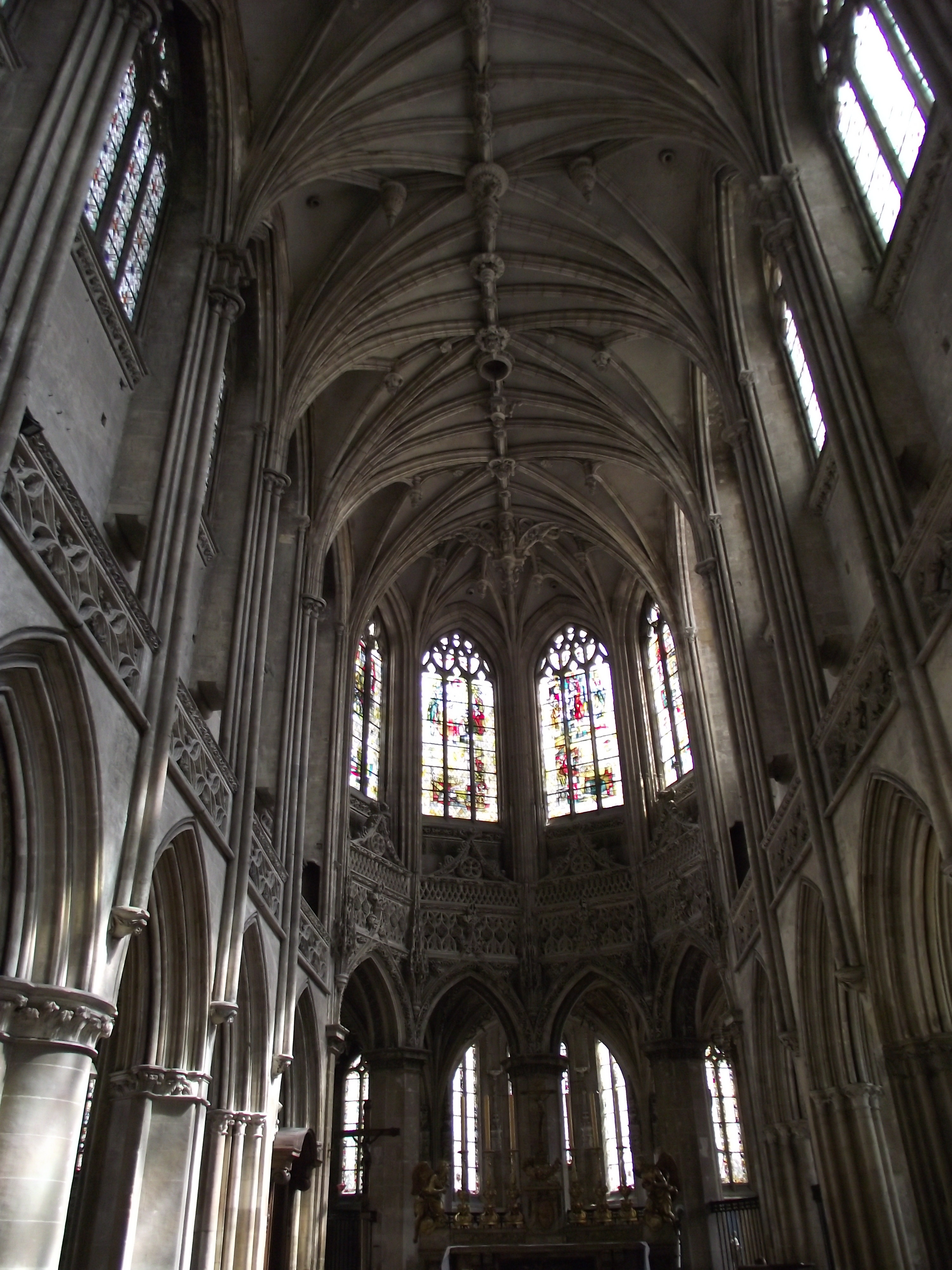 Interior of St.Peter's Church (Caen), XIII-XVI Century